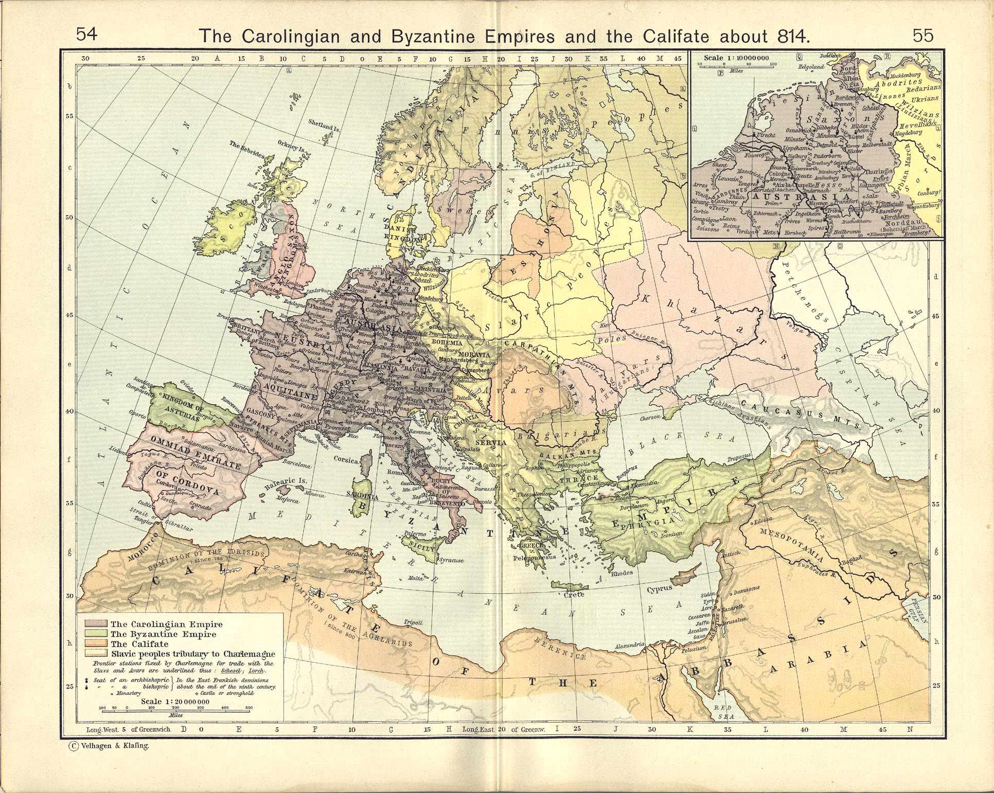 The Carolingian and Byzantine Empires and the Califate about 814